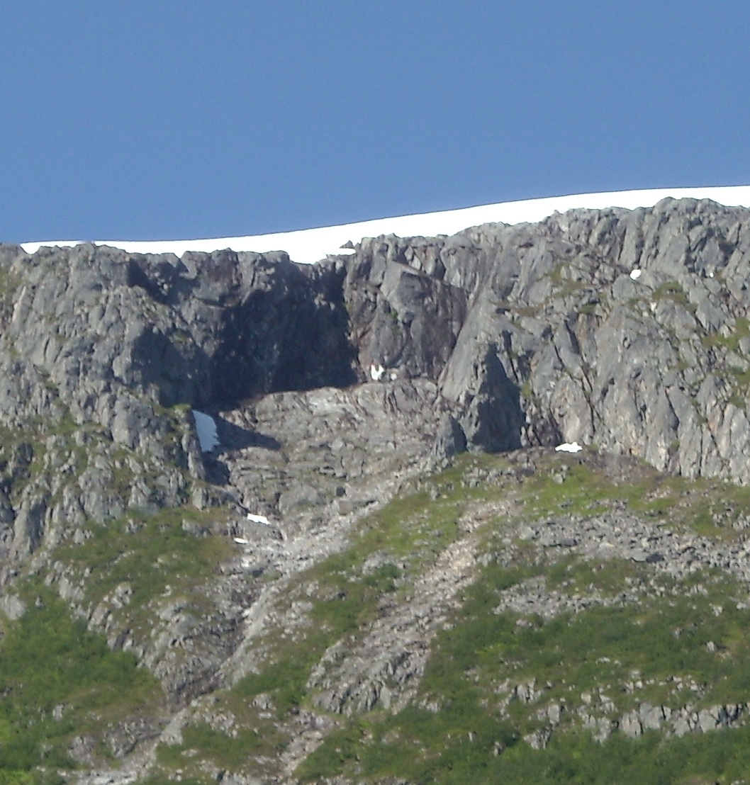 Øyfjellet above Byflata in Mosjøen, Norway. Painted cock/rooster resembling the arms of the town and of Vefsn Municipality.